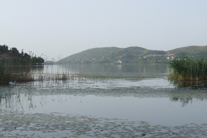 view over lake Orestiada near Kastoria, Greece